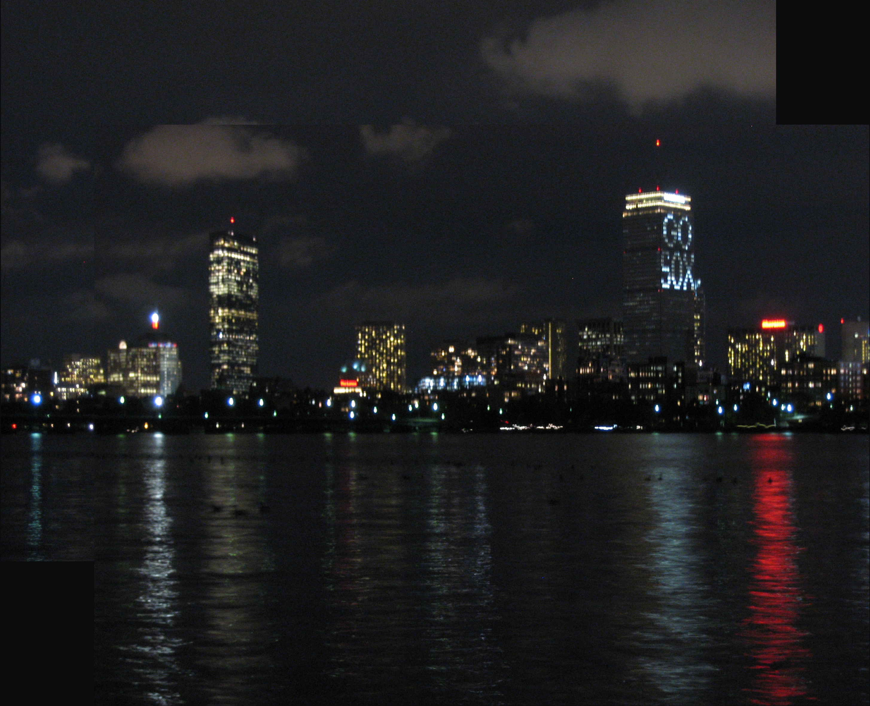 Boston skyline during the 2007 MLB Playoffs, showing the light pattern "Go Sox" created by lights in the windows of the Prudential Center. Two-photo mosaic to increase field of view.